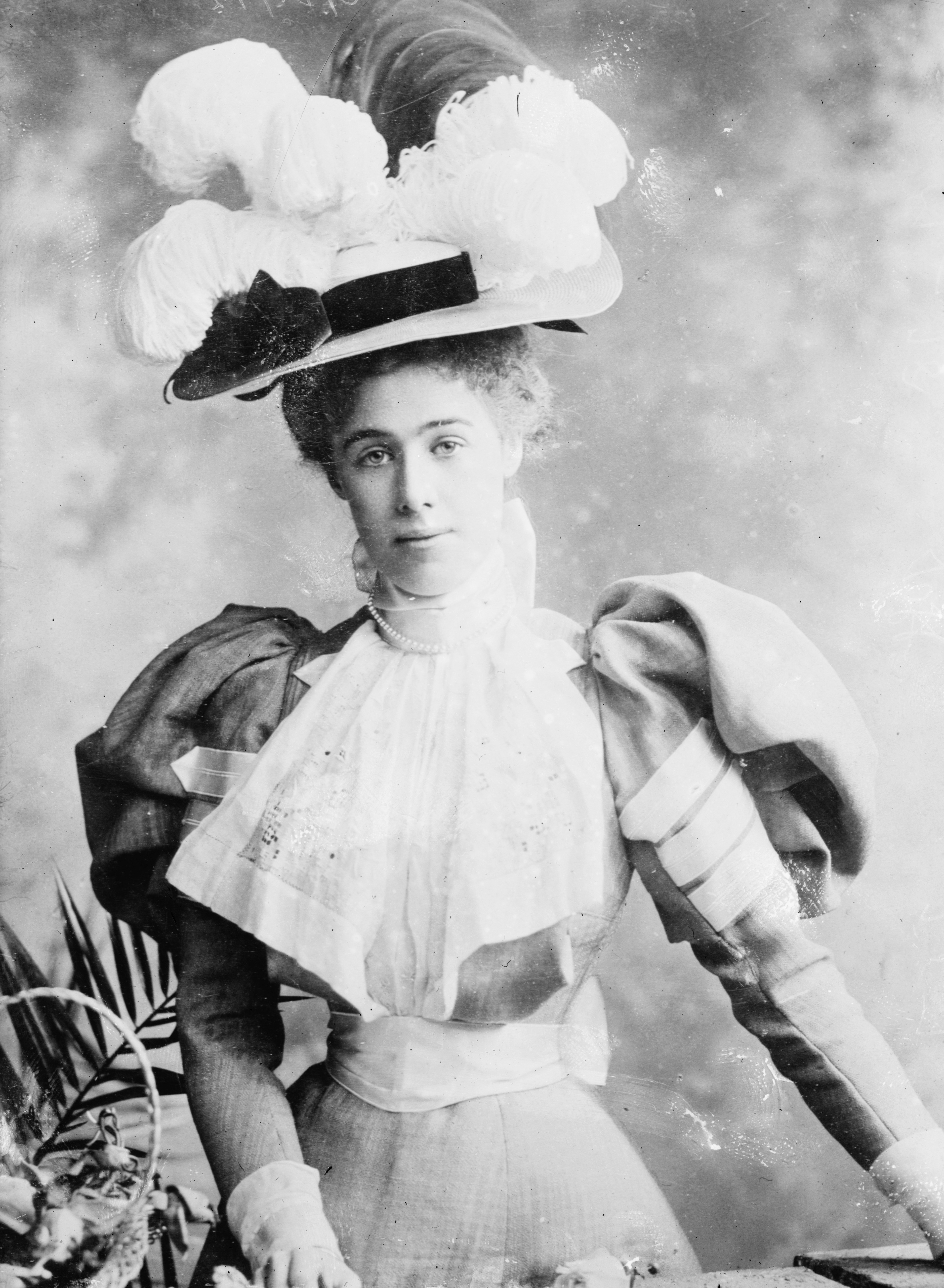 Title: Countess Craven Abstract/medium: 1 negative : glass ; 5 x 7 in. or smaller.